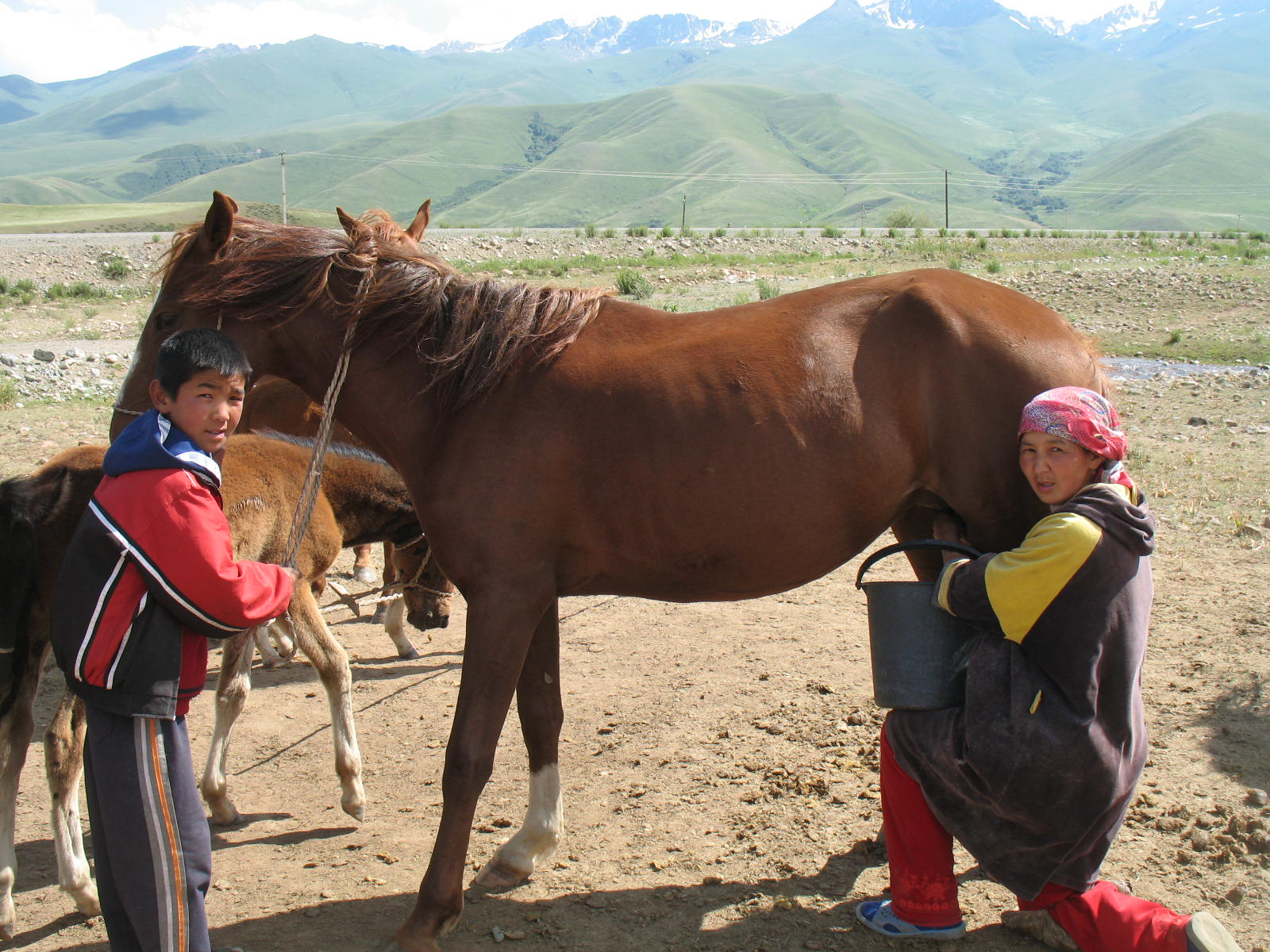 A mare being milked in the Suusamyr Valley, Kyrgyzstan. Кыргызча: Суусамырда бээ саап жатат.